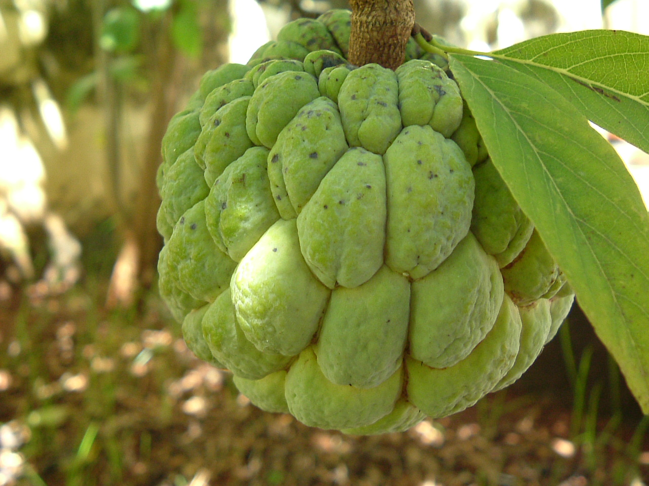 This is a sugar-apple fruit (Annona squamosa) that grew in my garden, in Brazil.